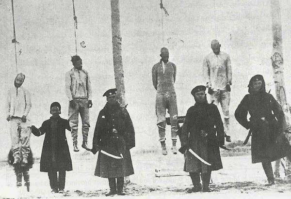 Execution of constitutional activists in Tabriz during Russian Invasion of, 1911. From right: Mirza Ali Nateq, Haj Samad Khayat, Haj Khan Veyjoobadi, and Shakur Kharrazi. - Tabriz - Iran